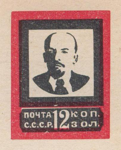 USSR stamp, Lenin's memories, 1924, 12 k. Falsificate